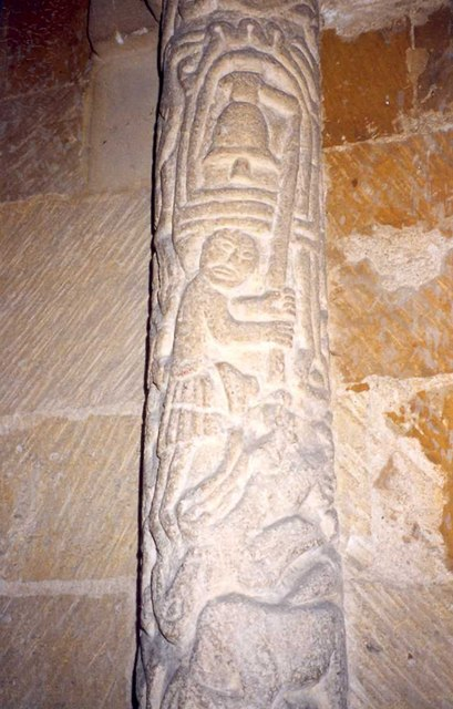 Church of England parish church of St Andrew, Stoke Dry, Rutland: detail of chancel arch. On the south impost of the Norman chancel arch is a relief that includes a man ringing a bell.